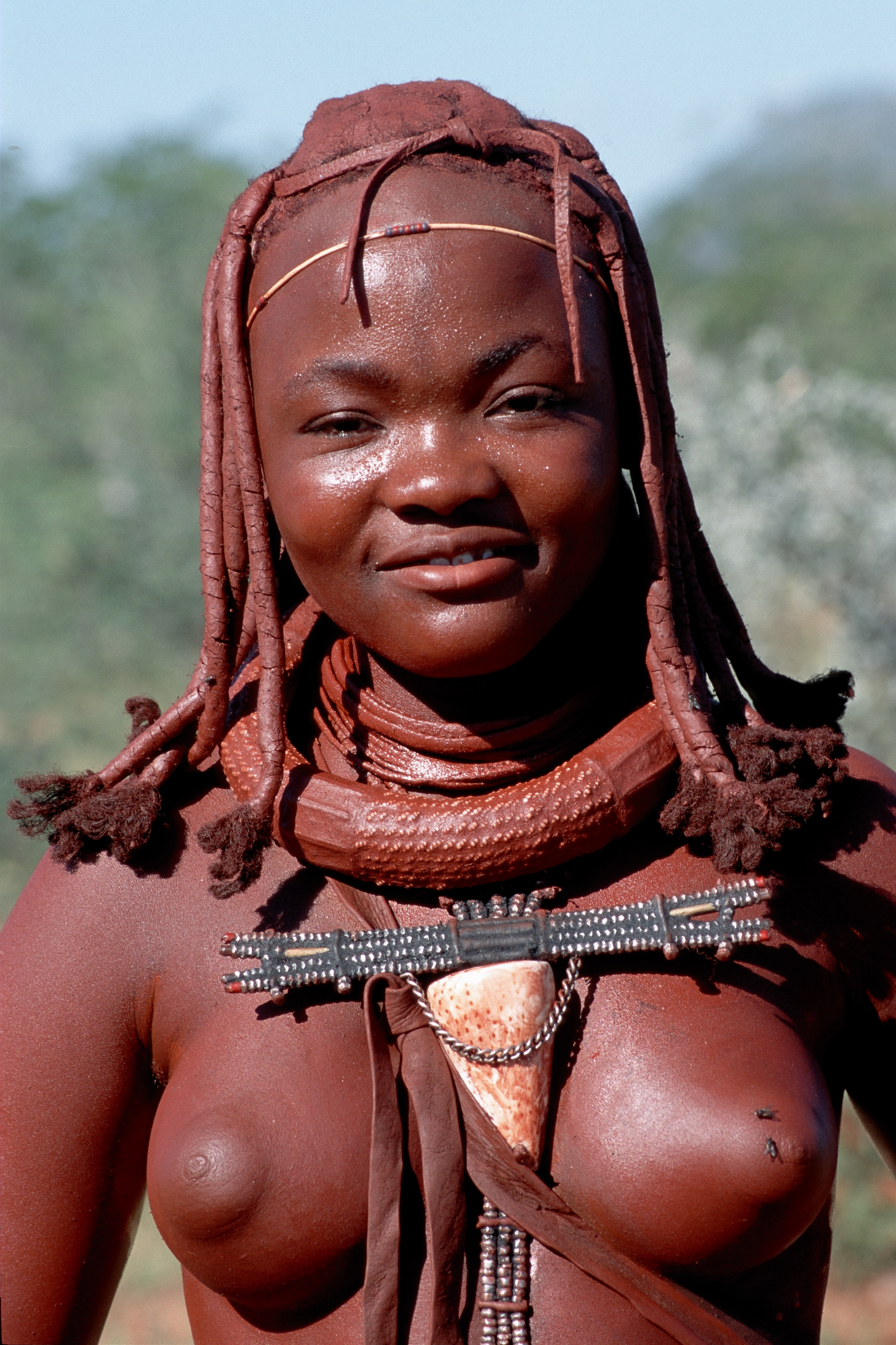 Young Himba woman